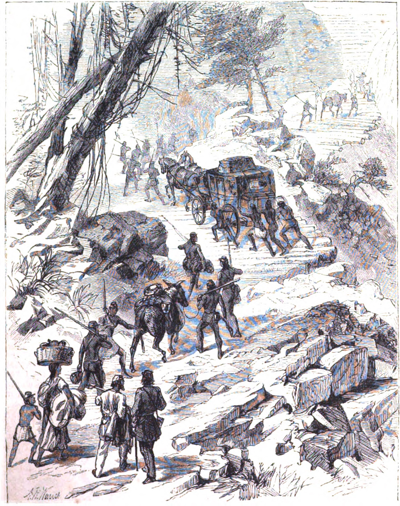 The pass of Ascurra.